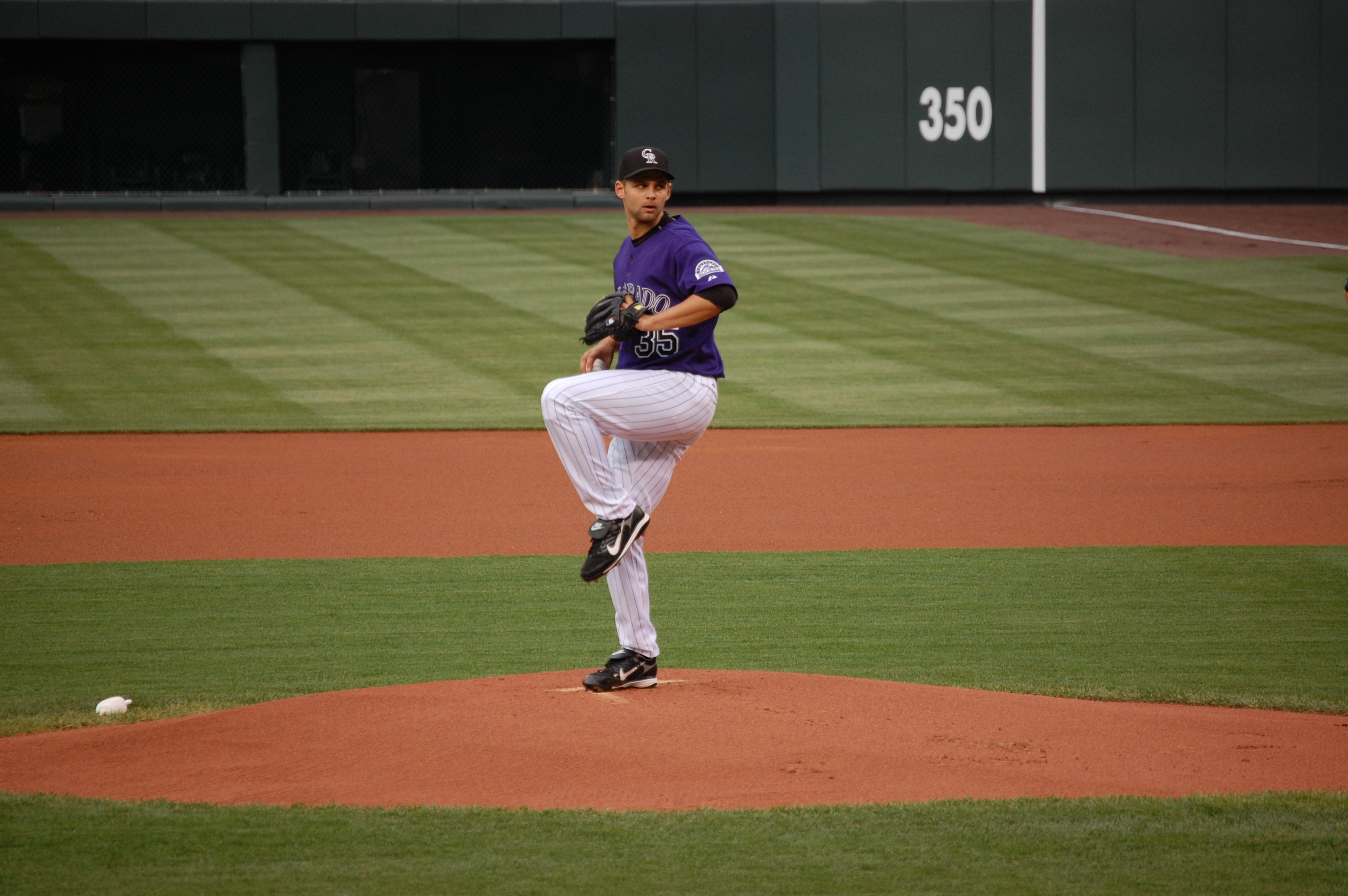 Taylor Buchholz / own shot, release under gfdl 06:10, 21 May 2007 . . Onetwo1 . . 3008×2000 (1,536,559 bytes)